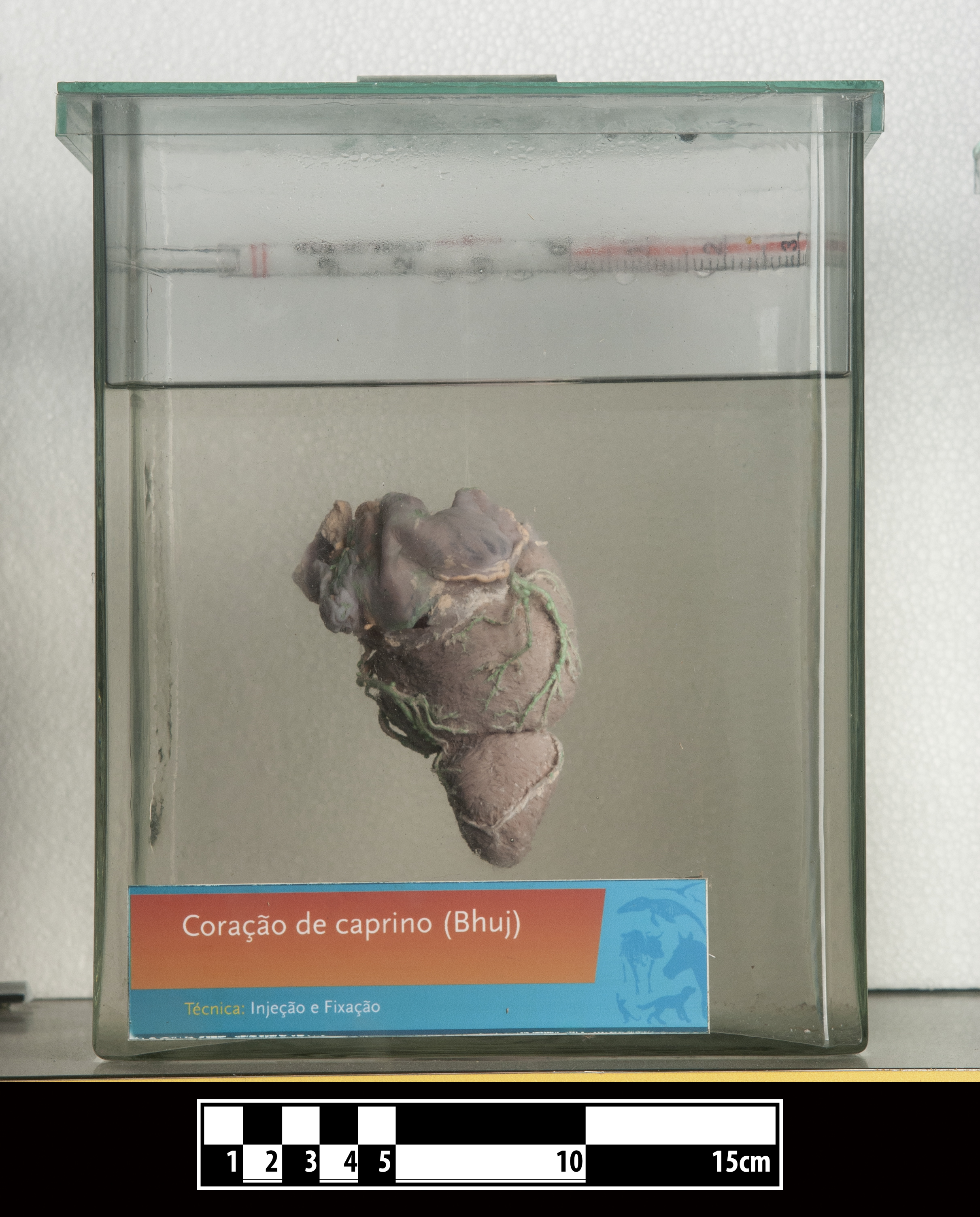 Caprine heart (Bhuj). Capra hircus Technique of latex injection and formalin on display at the Museum of Veterinary Anatomy, FMVZ USP. This file was published as the result of a partnership between the Museum of Veterinary Anatomy FMVZ USP, the RIDC NeuroMat and the Wikimedia Community User Group Brasil. This GLAM project is reported. Photography: Museum of Veterinary Anatomy FMVZ USP. Author: Wagner Souza e Silva.